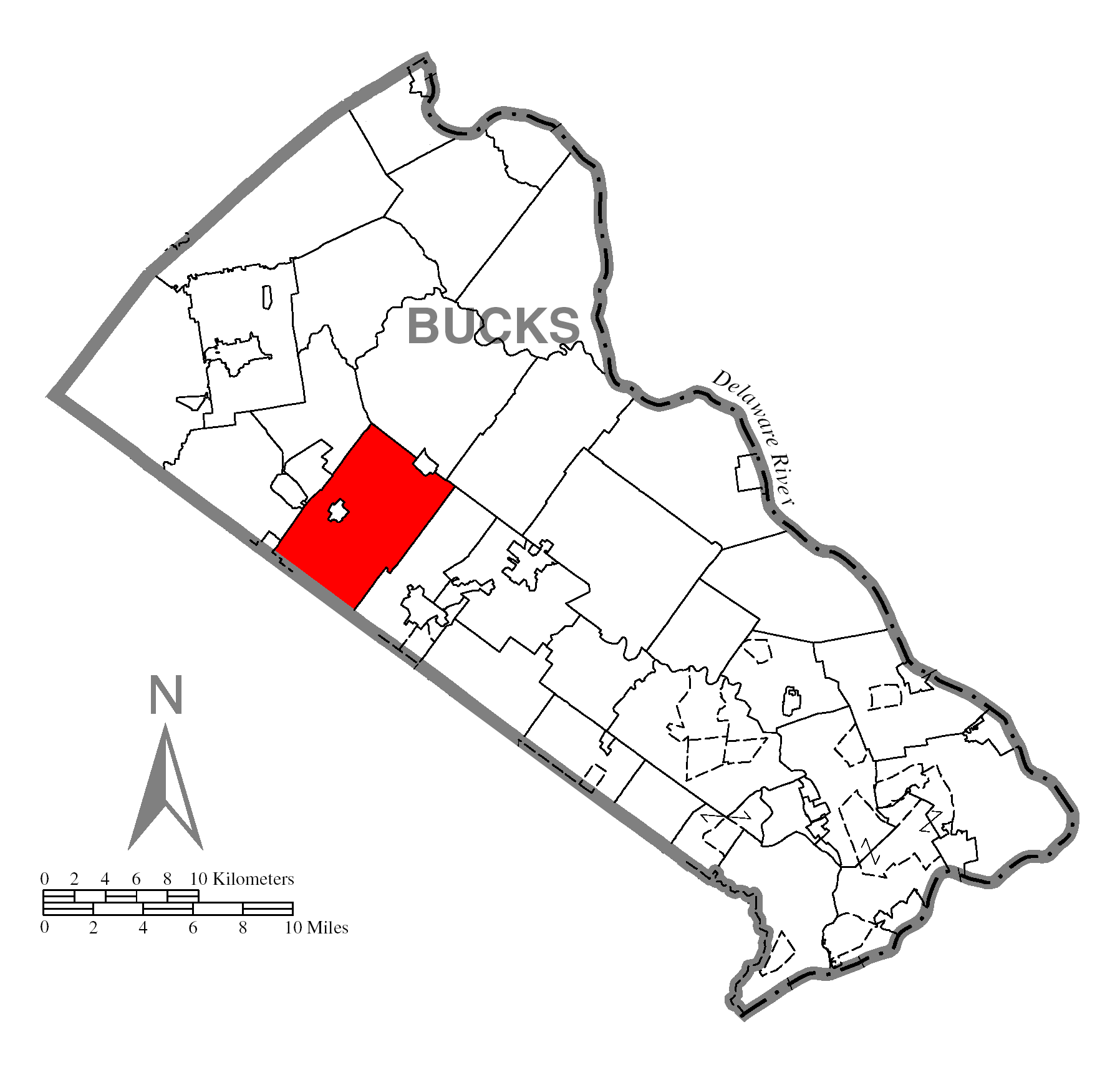 A map of Bucks County showing Hilltown Township, Pennsylvania (alternate) highlighted on the map.